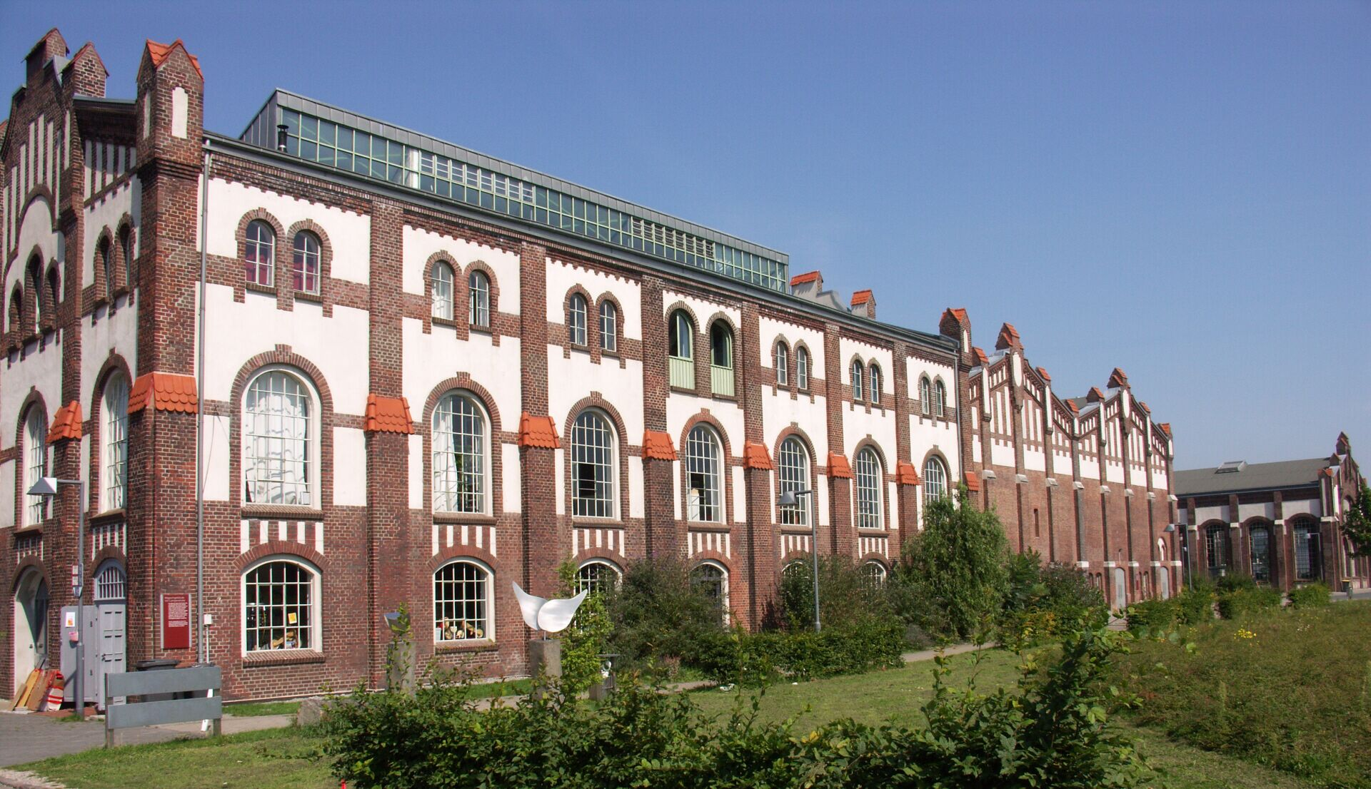 Zeche Waltrop, Werkhalle Coal-mine Waltrop, workshop